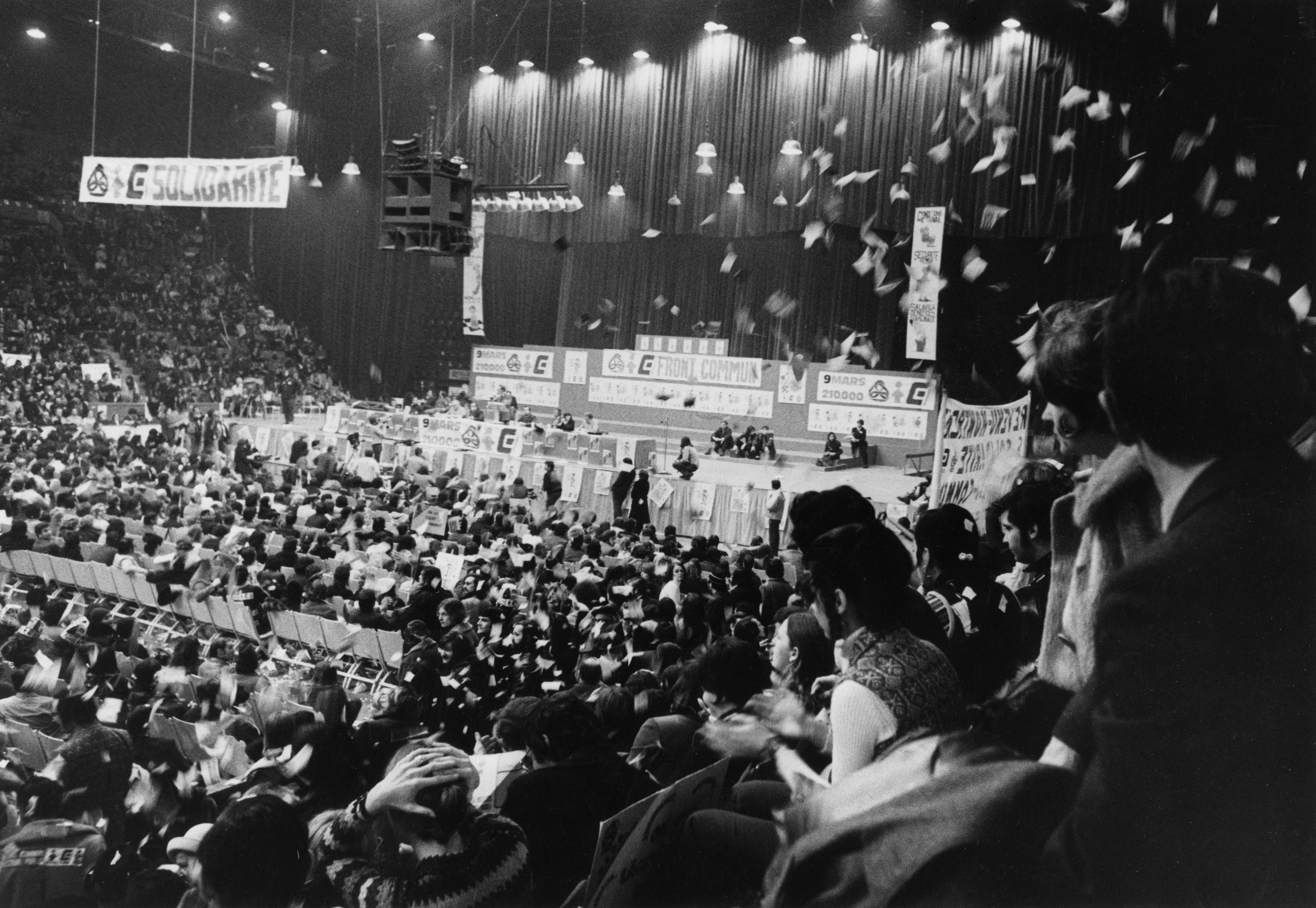 Rassemblement du Front Commun du secteur public au Forum de Montréal le 7 mars 1972